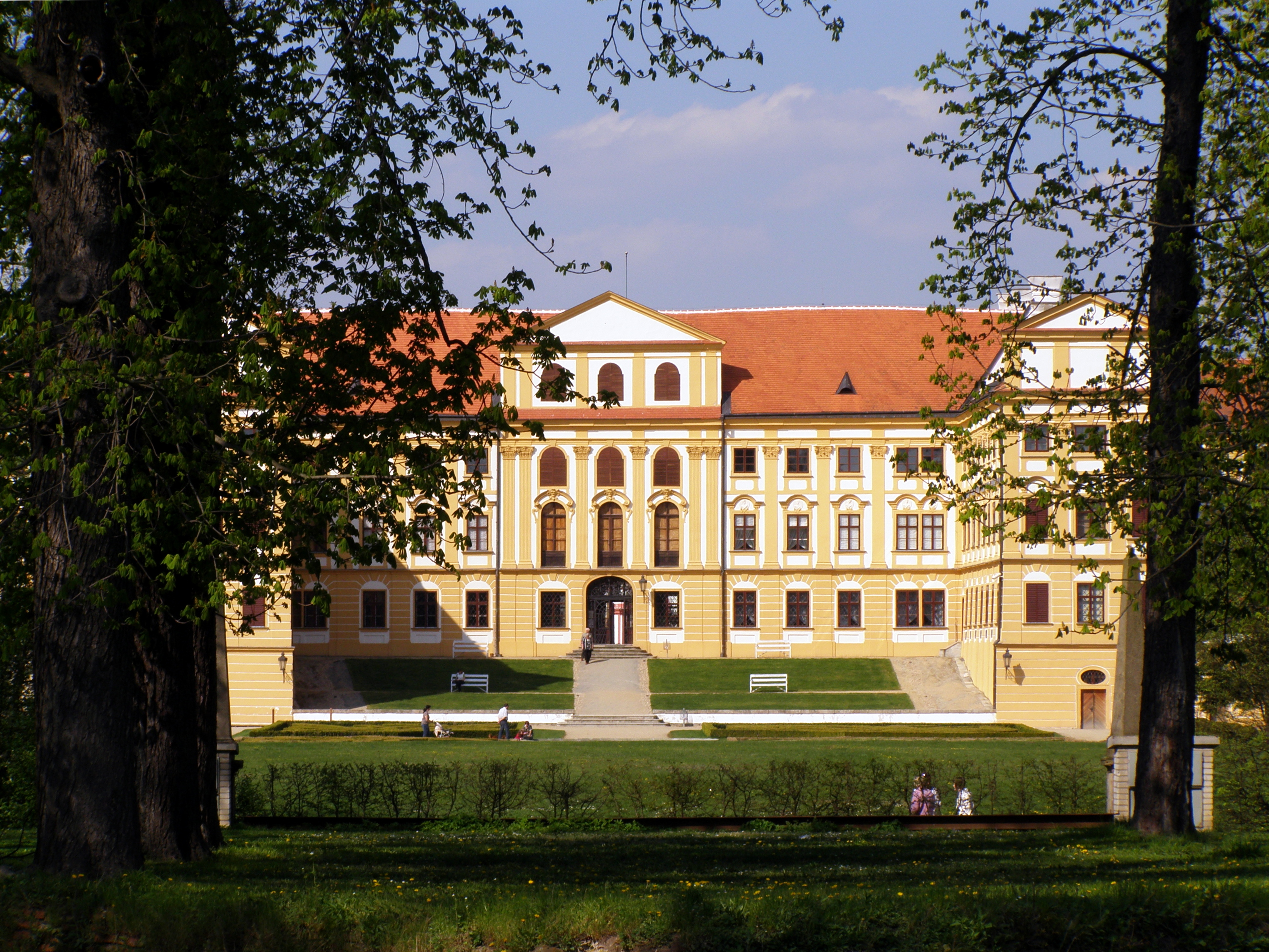 Jaroměřice nad Rokytnou. Baroque castle